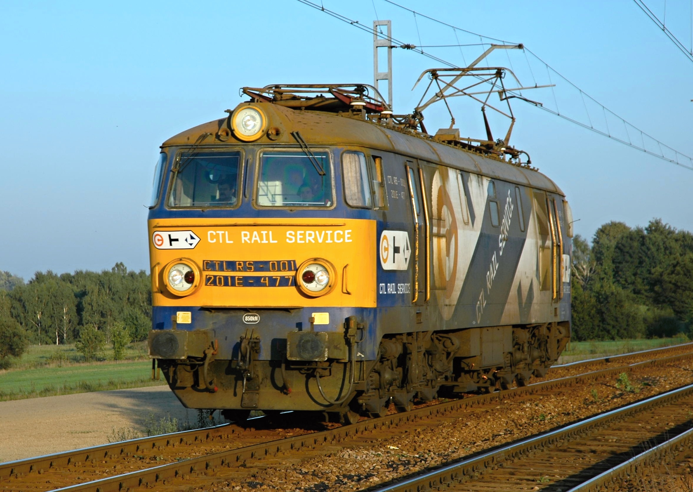 Locomotive 201E-477 of CTL Logistics; between Ruda Kochłowice and Ruda Wirek